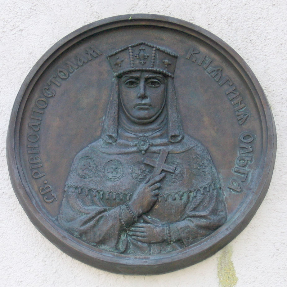 Saint Olga, Bronze relief at the facade of Maria Schutz und St. Andreas, Munich, the Cathedral of the Apostolic Exarchate for the catholic Ukrainians.